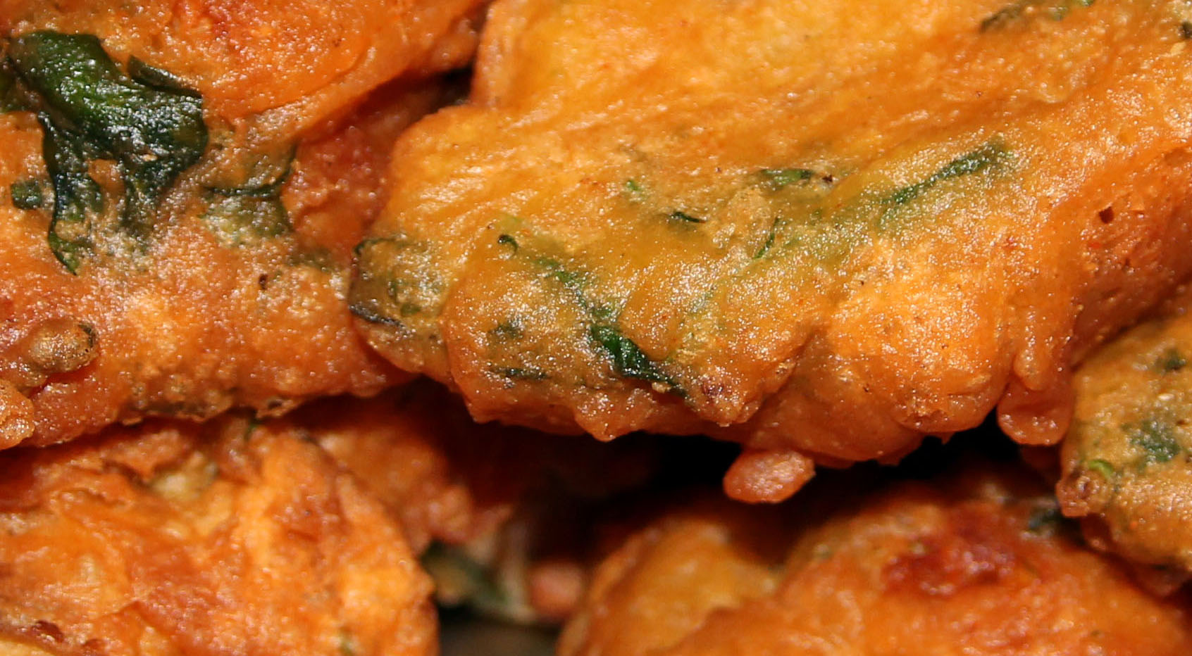 Close-up of Pakora containing spinach